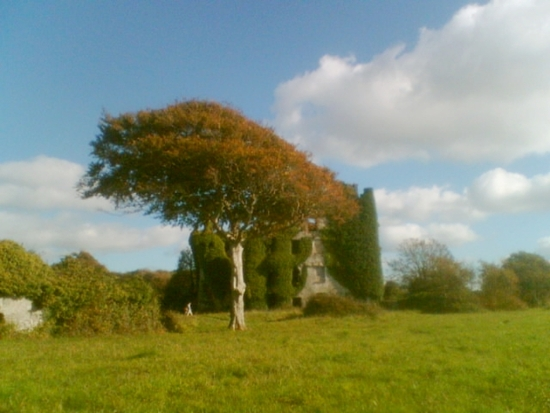 Menlo Castle, at Castlegar, County Galway, Ireland.